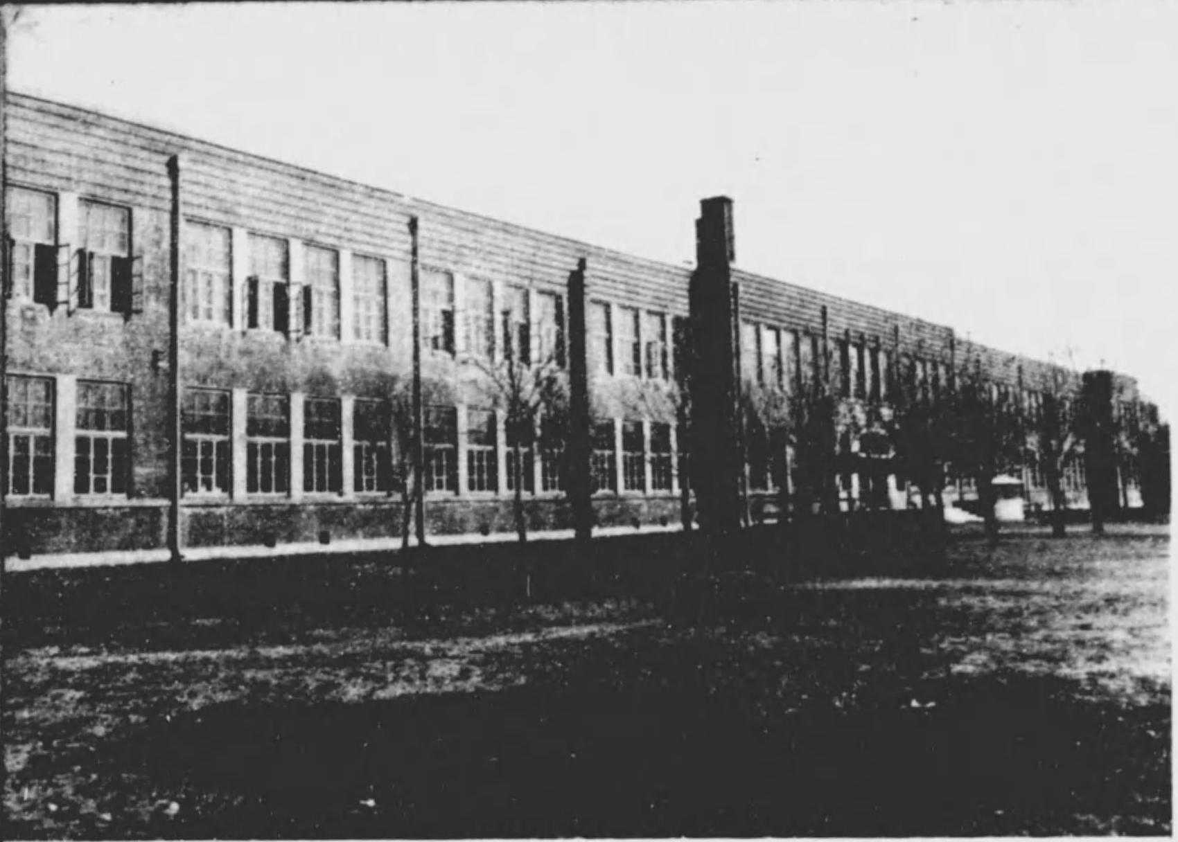 9 Pictures of Mukden in book SMR 30 years history